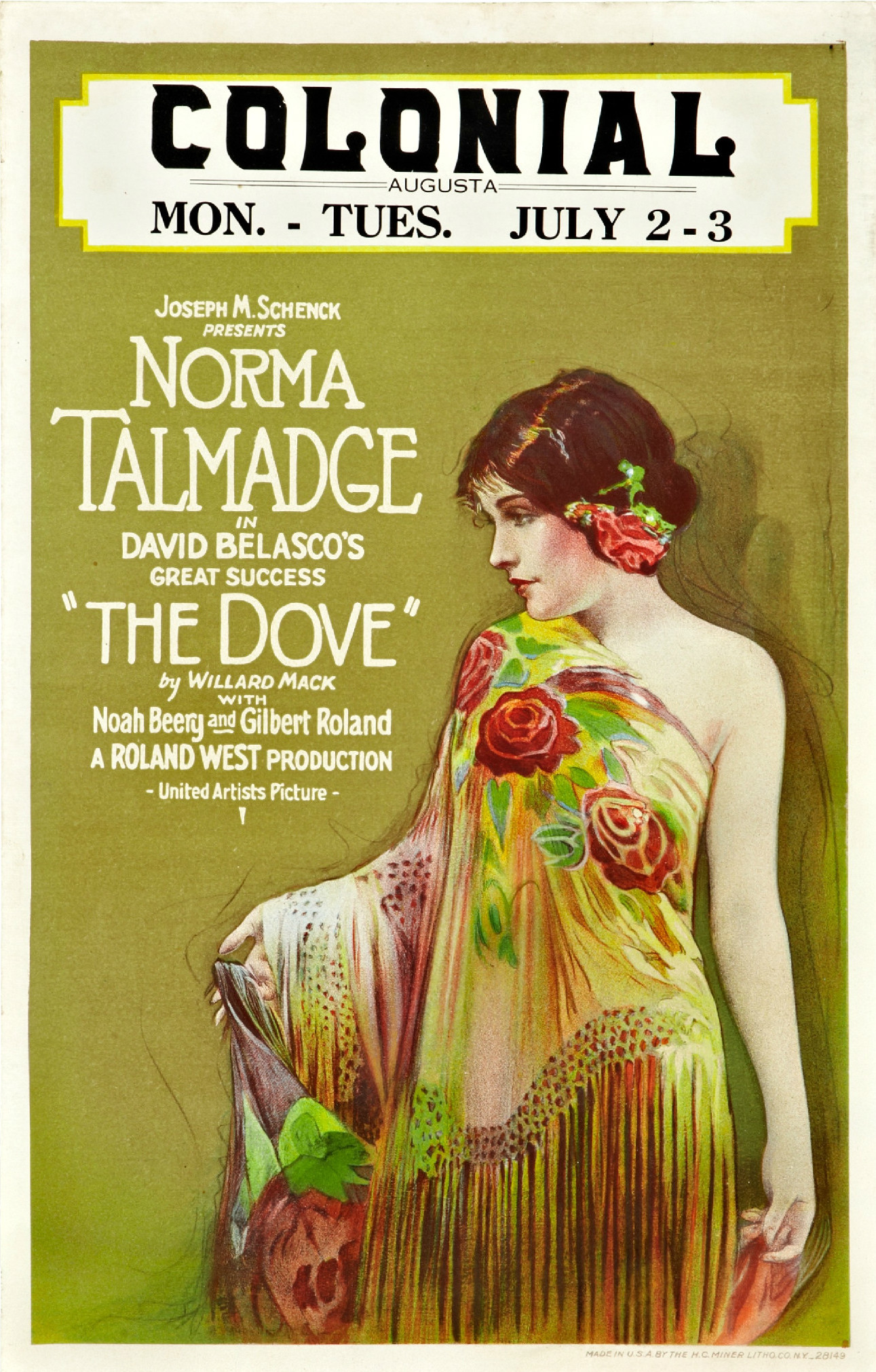 Window poster for the American romantic drama film The Dove (1927).